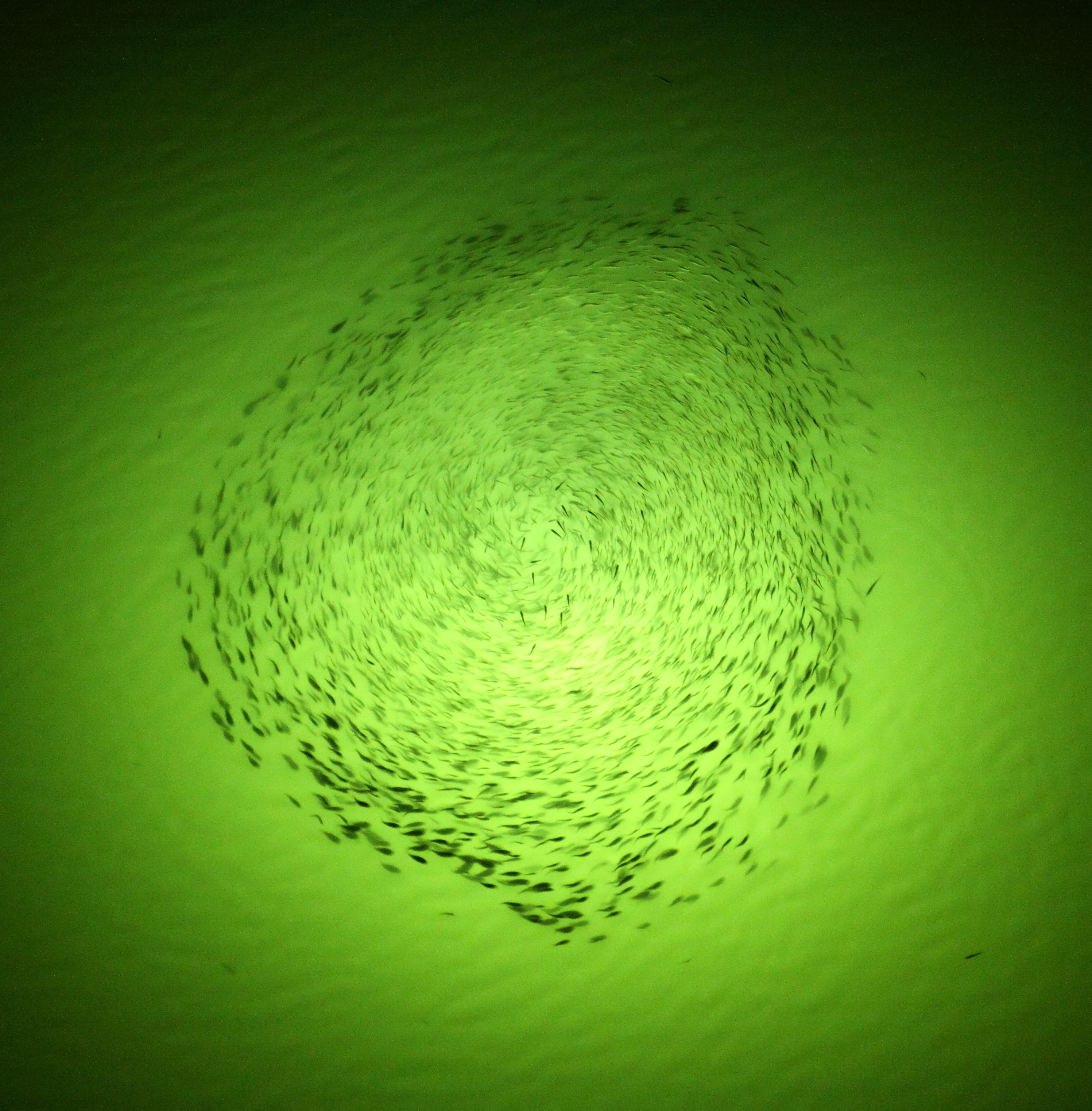 A light mounted under water that is used as an attractant for fish.